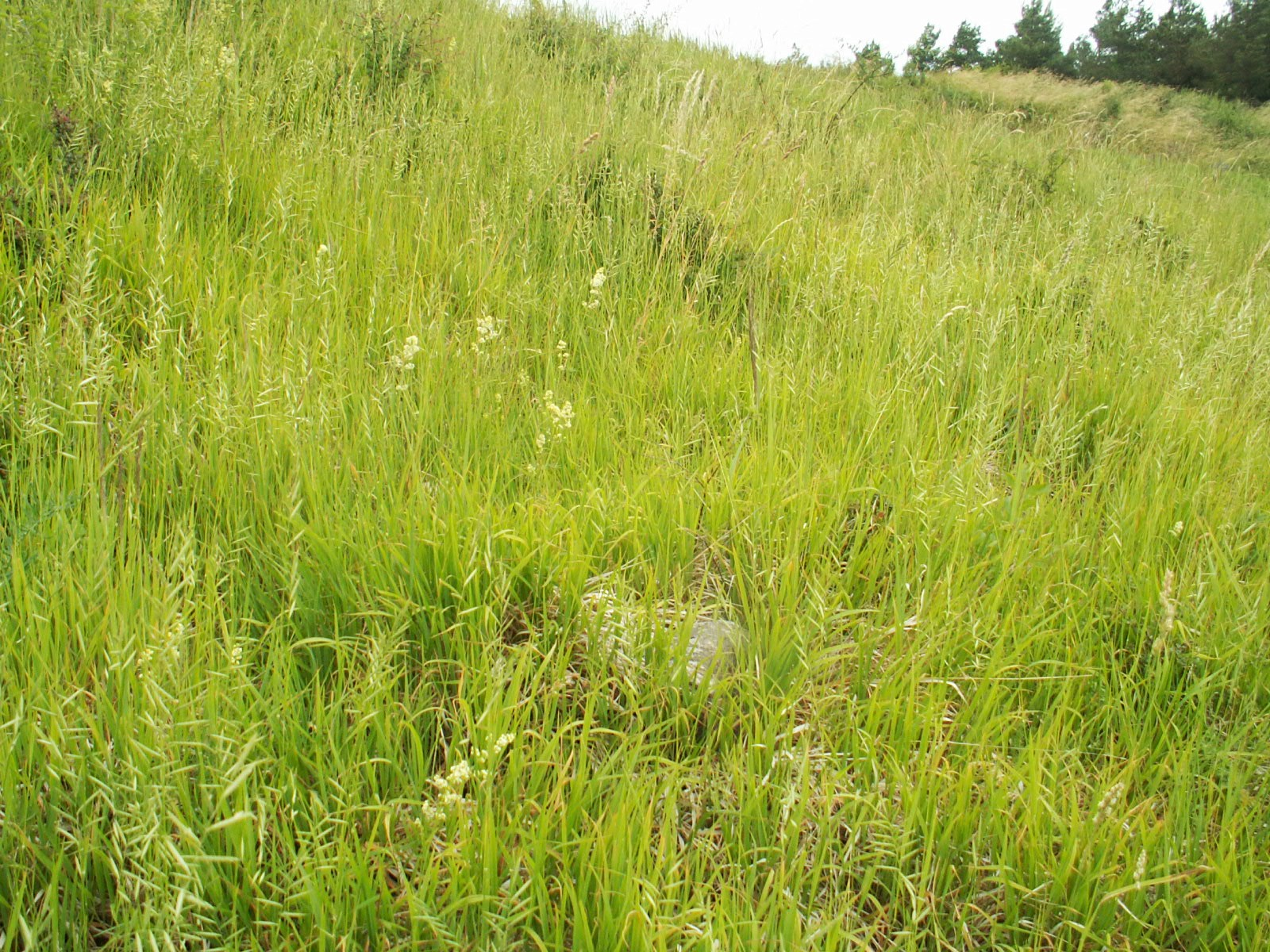 Xerotermic grassland with Brachypodium pinnatum as dominant species in Moczyły near Szczecin, NW Poland